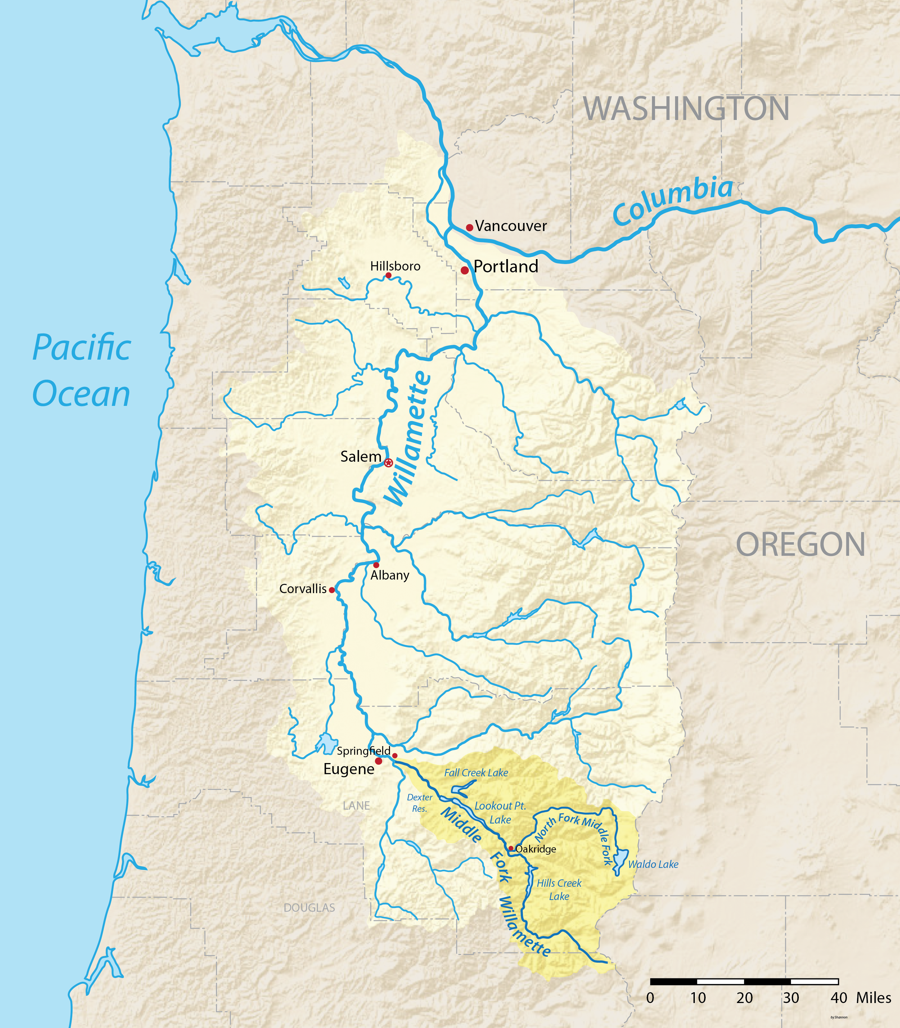 Map of the Willamette River basin in Oregon, USA with the Middle Fork Willamette River tributary highlighted. Made using USGS National Map data.